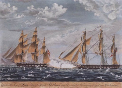 Den danske fregat "Diana" comanderet af Captn. N.C. Meyer iaget af en engelsk 44 cannons fregat nær Cartagena